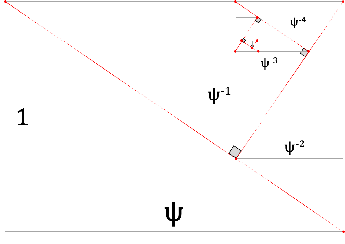 This diagram shows the lengths of decreasing power in the supergolden ratio, and the pattern of right angles that appear within it